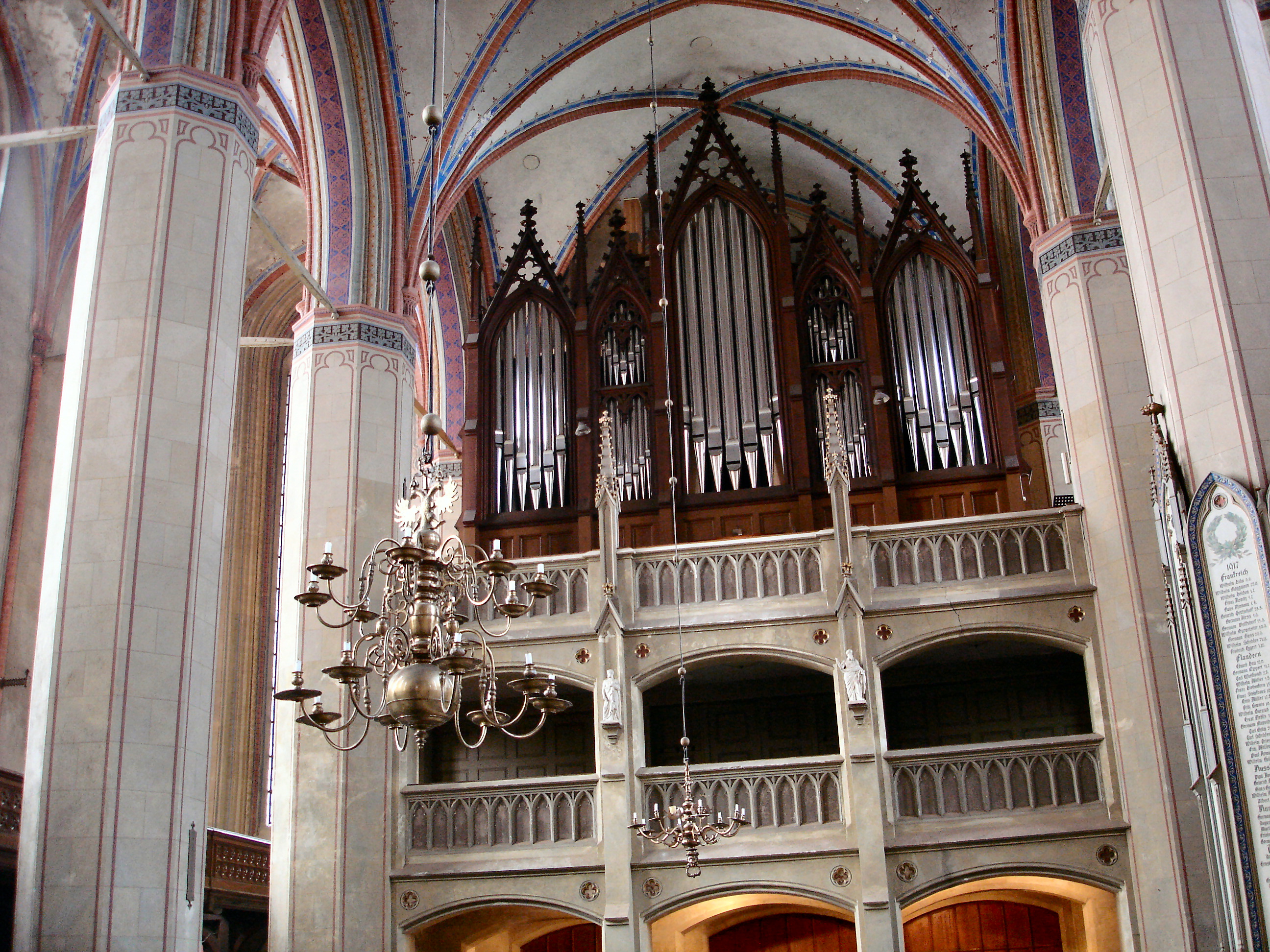 Orgel Marienkirche Barth/ Organ of the Marienkirche in Barth